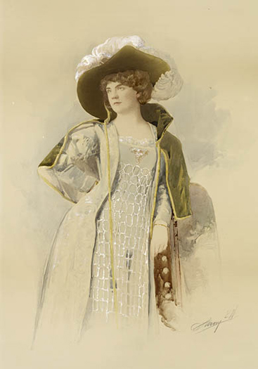 Ada Rehan as Katherine in Augustin Daly's production of The Taming of the Shrew, 1887